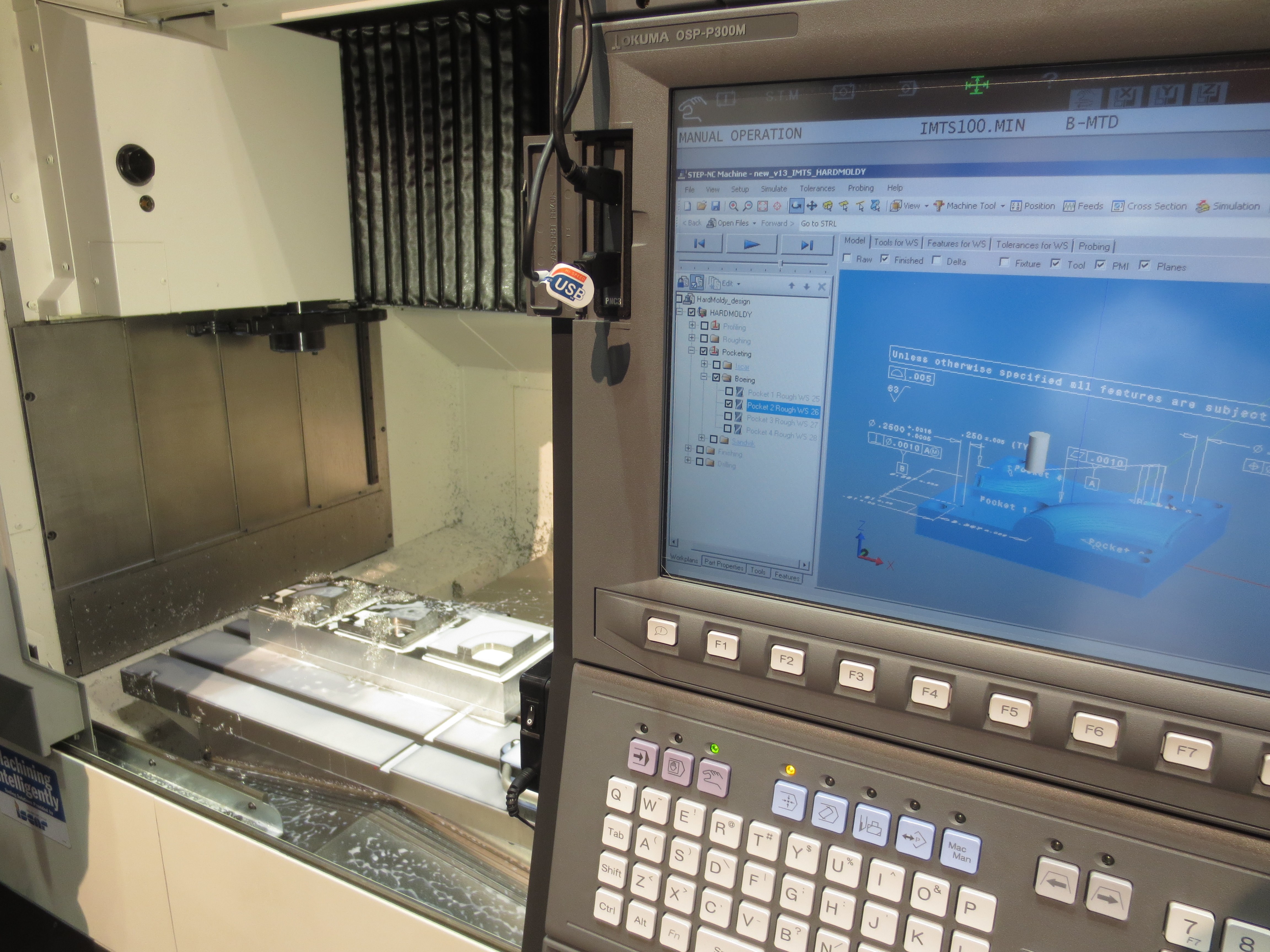 STEP-NC machining on an Okuma CNC at IMTS 2014. The base machining process for the illustrated mold part was created by Boeing and then sent to Sandvik and ISCAR for optimization. The result was a STEP-NC description containing all three process options. The operator machined three different parts (shown fixtured in the machine) by selecting between the alternatives. All machining was done in titanium.